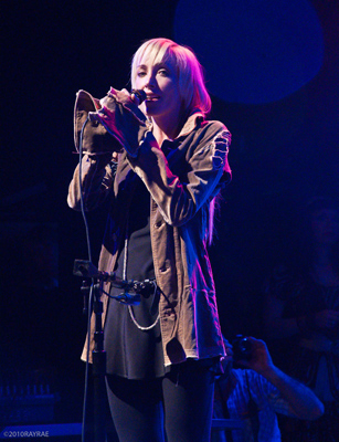 Poe (Singer) performs at the El Rey Theatre, Los Angeles, March 2010. Photographer Ray Rae.